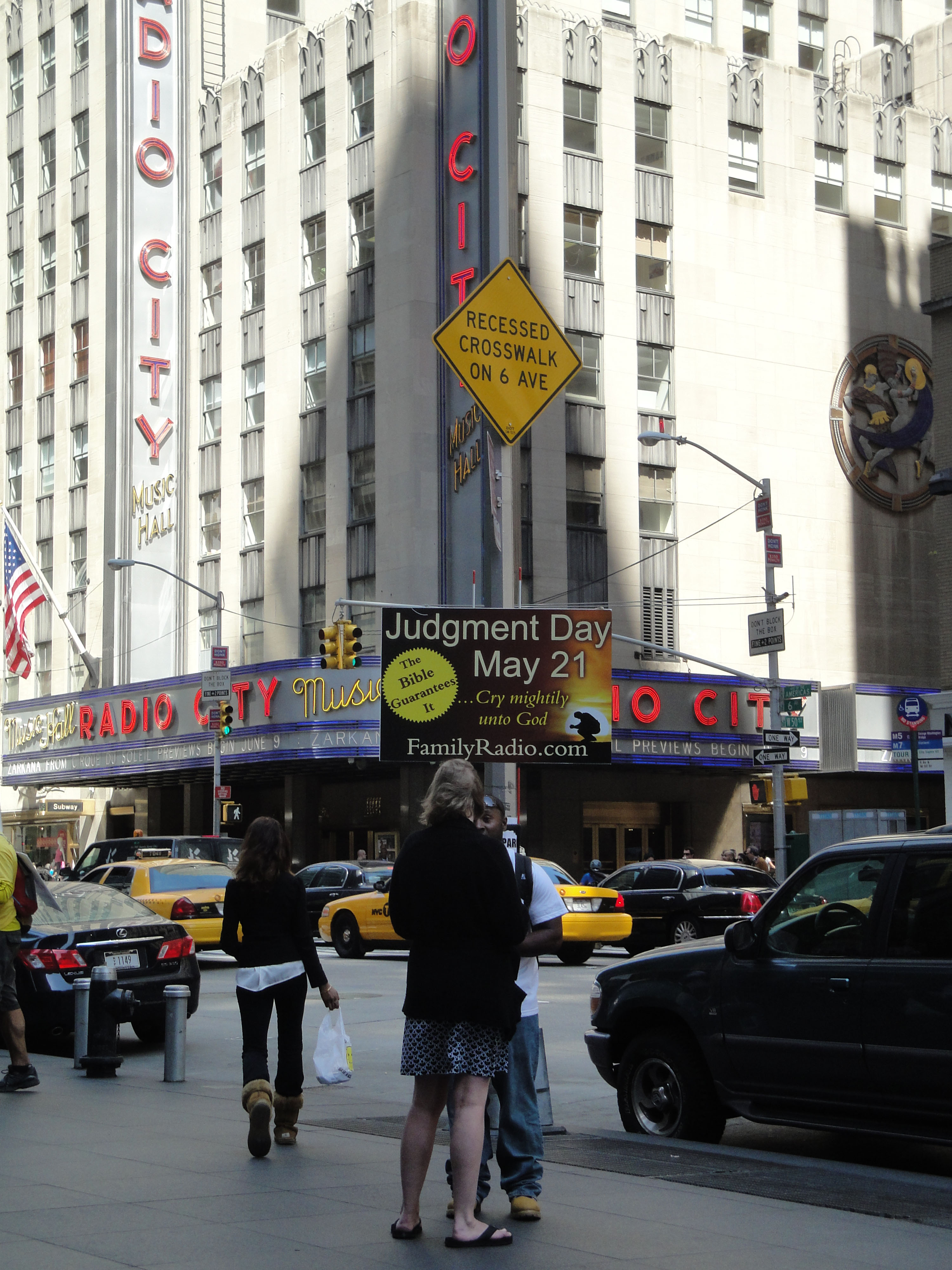 A member of the May 21st Doomsday group in front of Radio City Music Hall in New York City on May 12th, 2011.